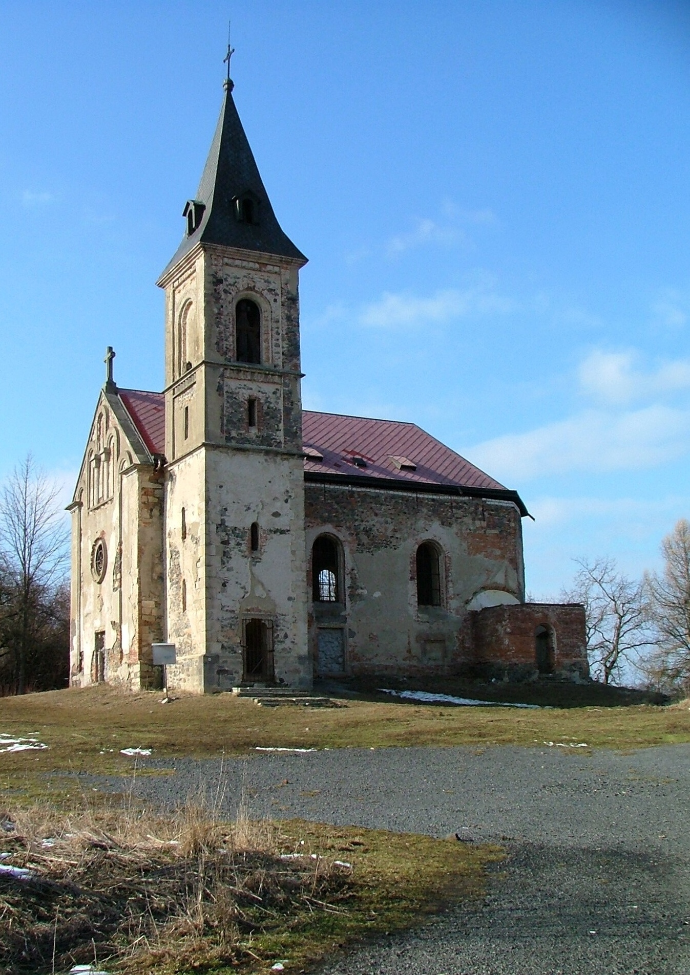 St. Mary Magdalene's Church in Kokašice (2004)